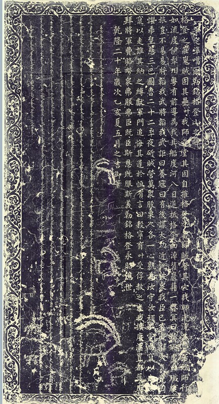 Rubbing of the Stele had written by Qianlong Emperor and made by Agui. The stele has been there for more than 250 years, since Qing dynasty. 中文（中国大陆）: 平定准噶尔勒铭碑拓本 乾隆书